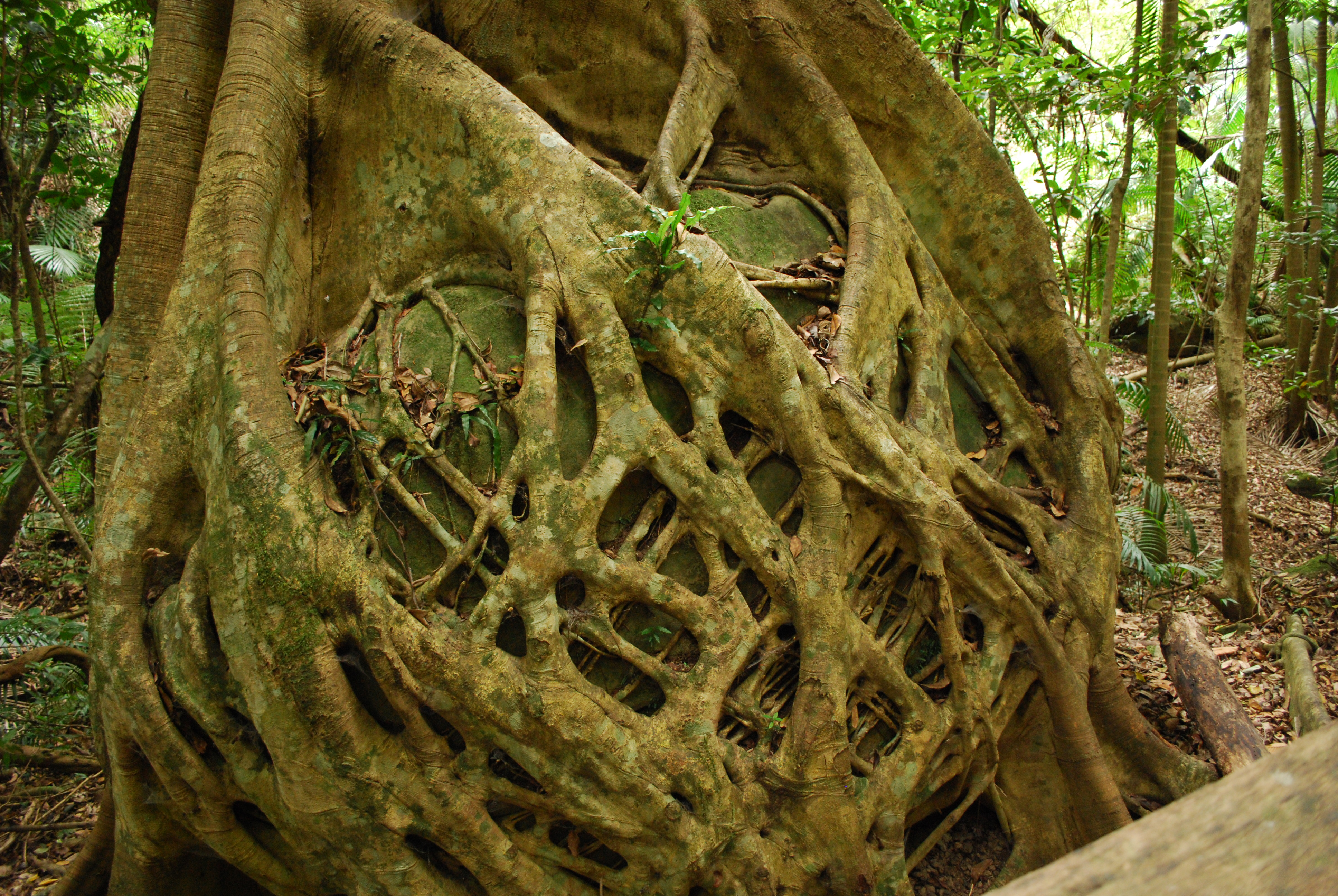 A Strangler fig growing around a boulder at Katandra Reserve, near Gosford, New South Wales, Australia. It is a prominent landmark along Toomeys Walk. The boulder is around 1.5m in diameter.